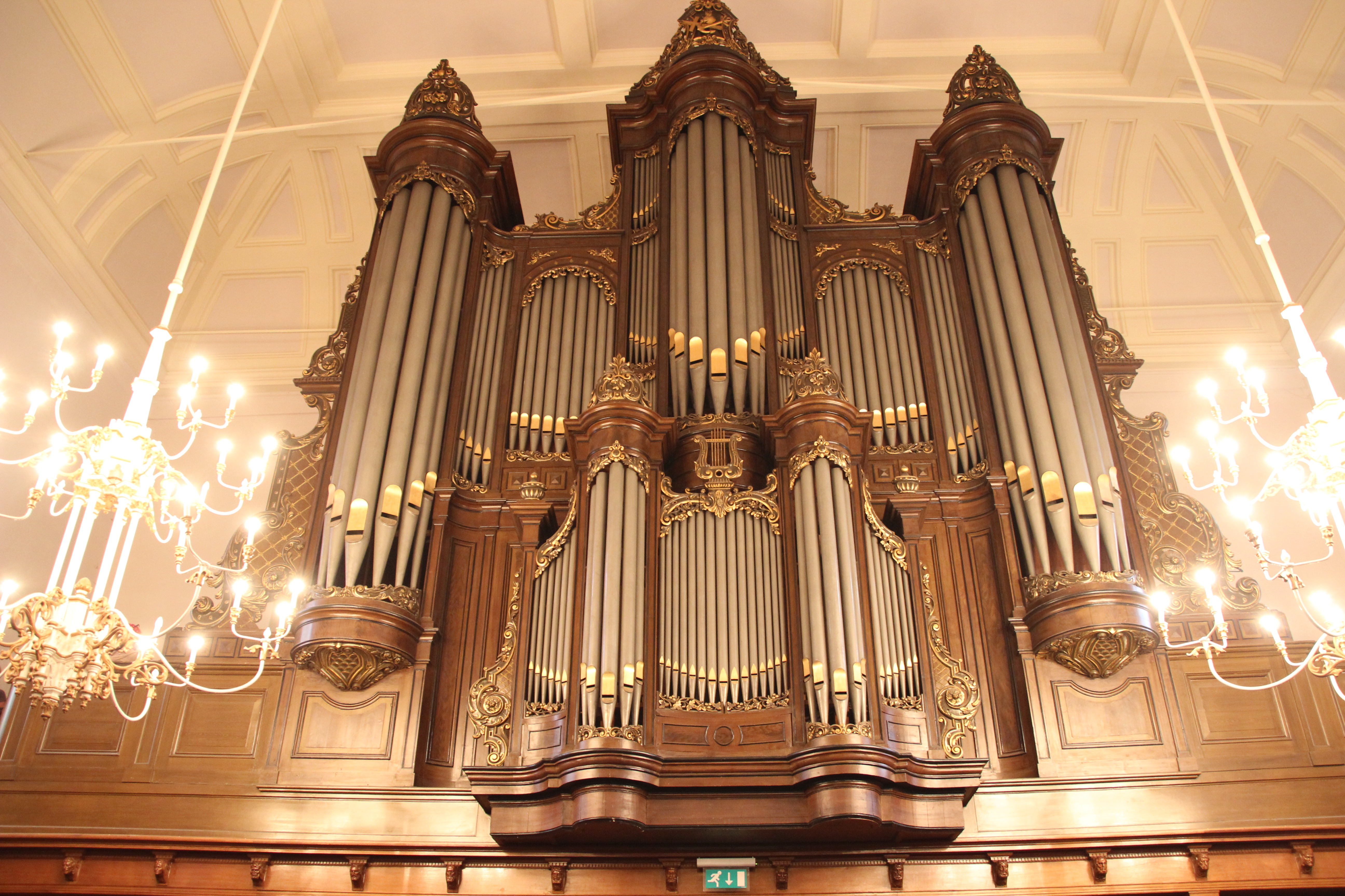 Organ from 1892 of the 'Grote Kerk' (big church) in Enschede, the Netherlands.